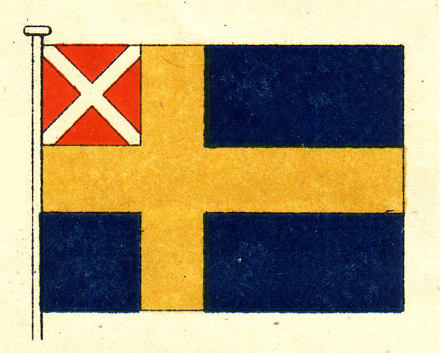 Swedish-Norwegian union merchant flag 1818-1844